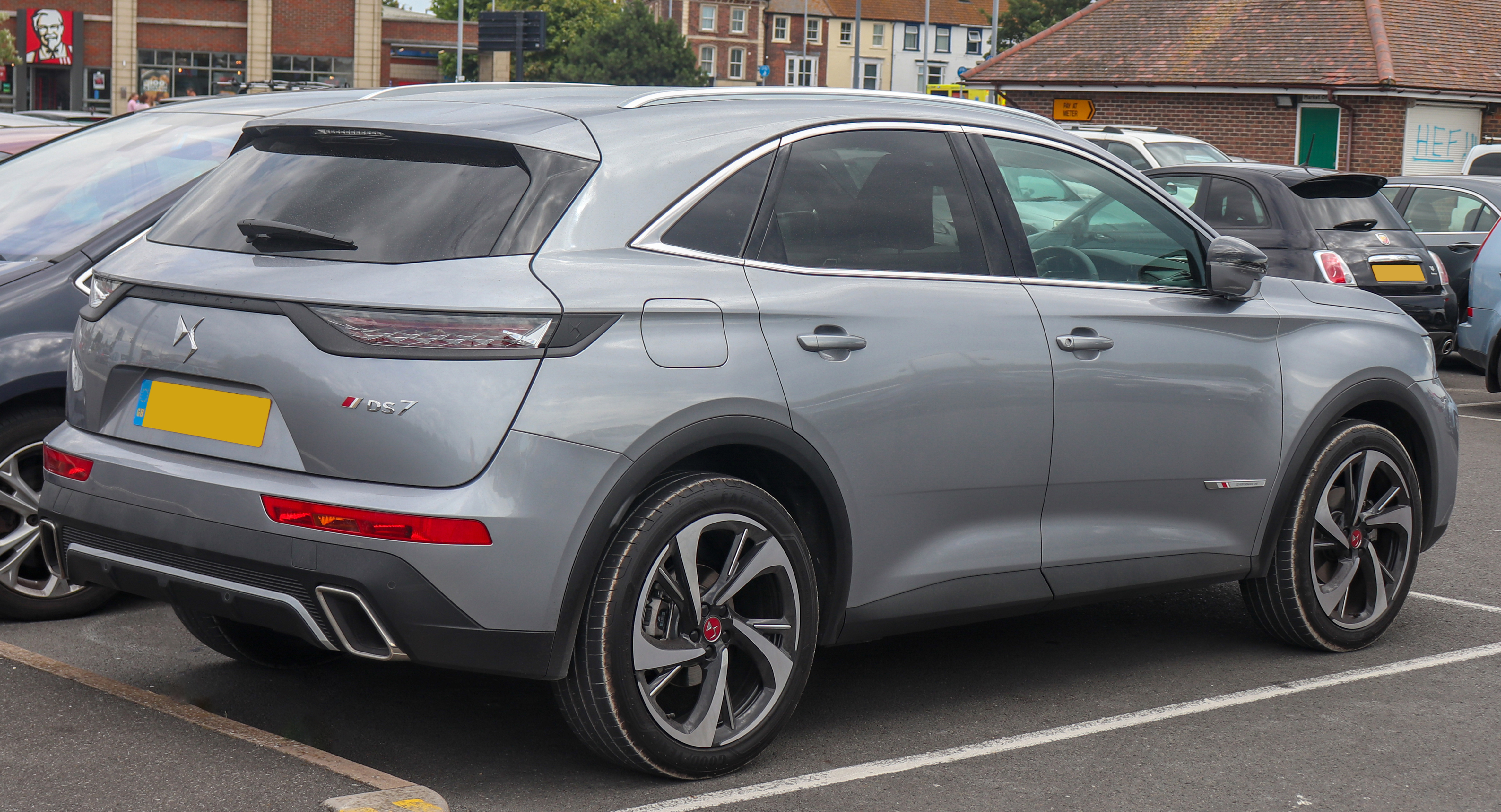 2018 DS 7 Crossback PERFORMANCE Line PureTech 1.6 Rear Taken in Weymouth, Dorset